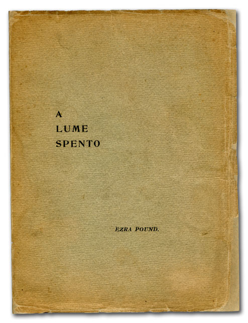 Front cover for A Lume Spento, the first poetry collection by Ezra Pound.